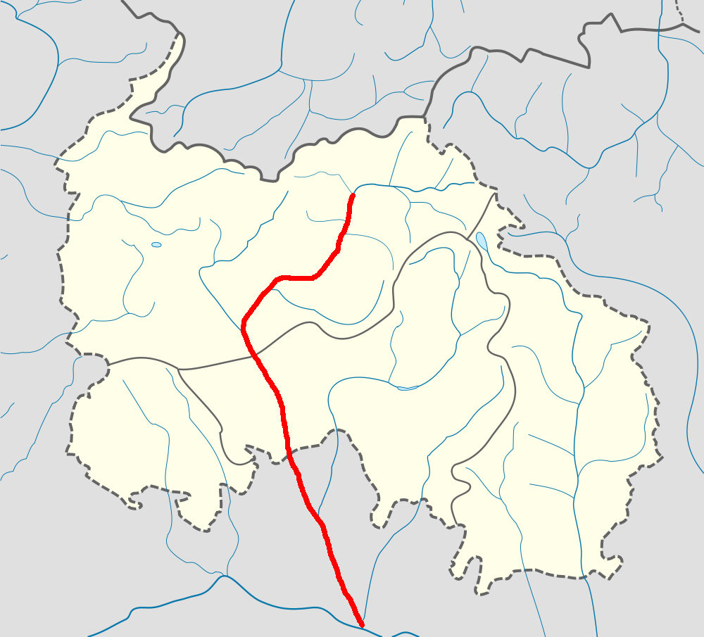 Great Liakhvi (Styr Lewaxi)